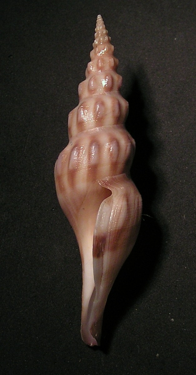 Comitas peelae Bozzetti, 1993 ; Pseudomelatomidae; the Phillipines